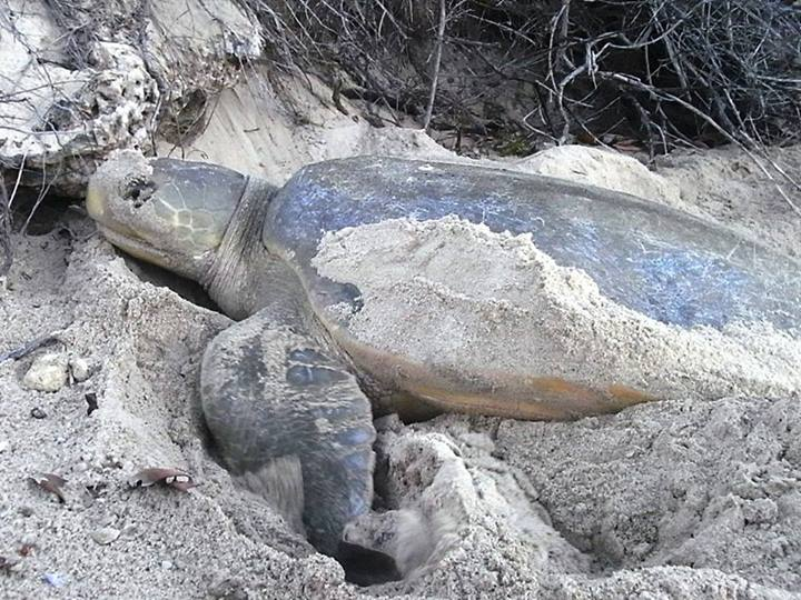 Natator depressus - Flatback turtle nesting on Great Keppel Island off Queensland Coast, Australia